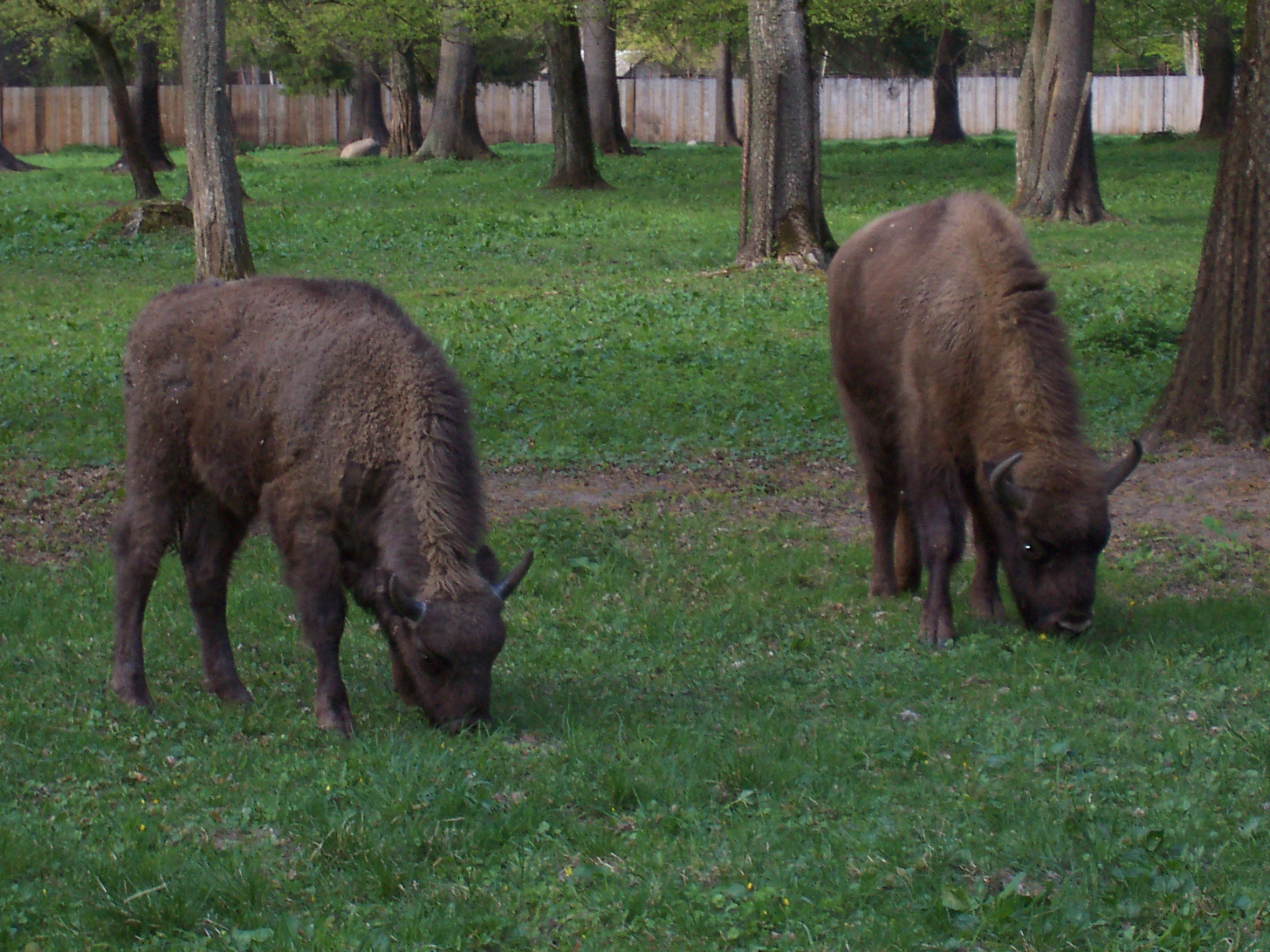 Wisent in Białowieża Forest National Park